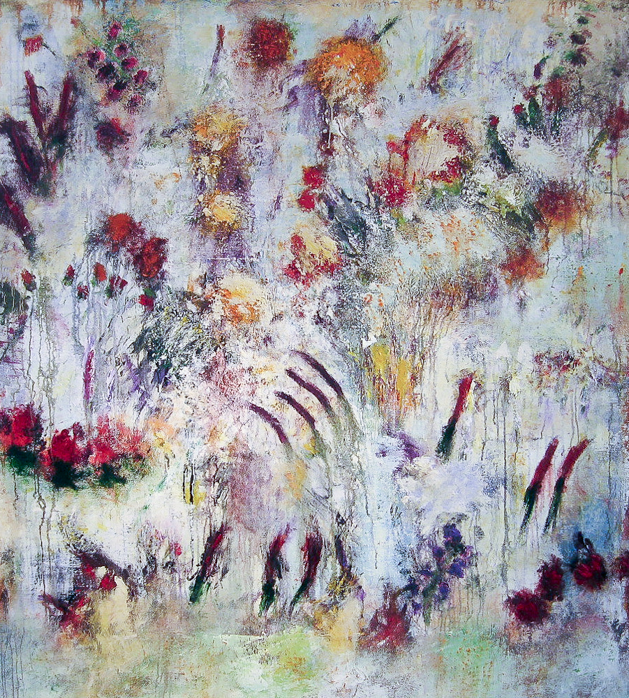 Painting by Adam Shaw